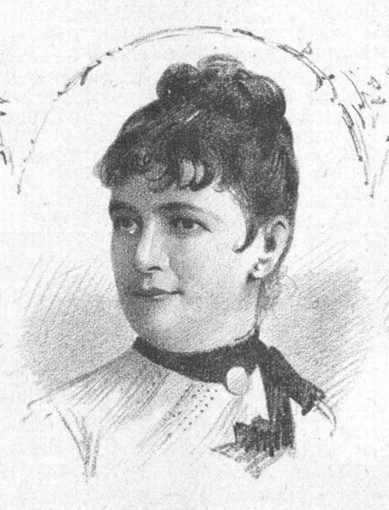 Portrait of Miss Braga (married Hermine Braga-Jaff, 1857-1940), Hungarian opera singer in Vienna.